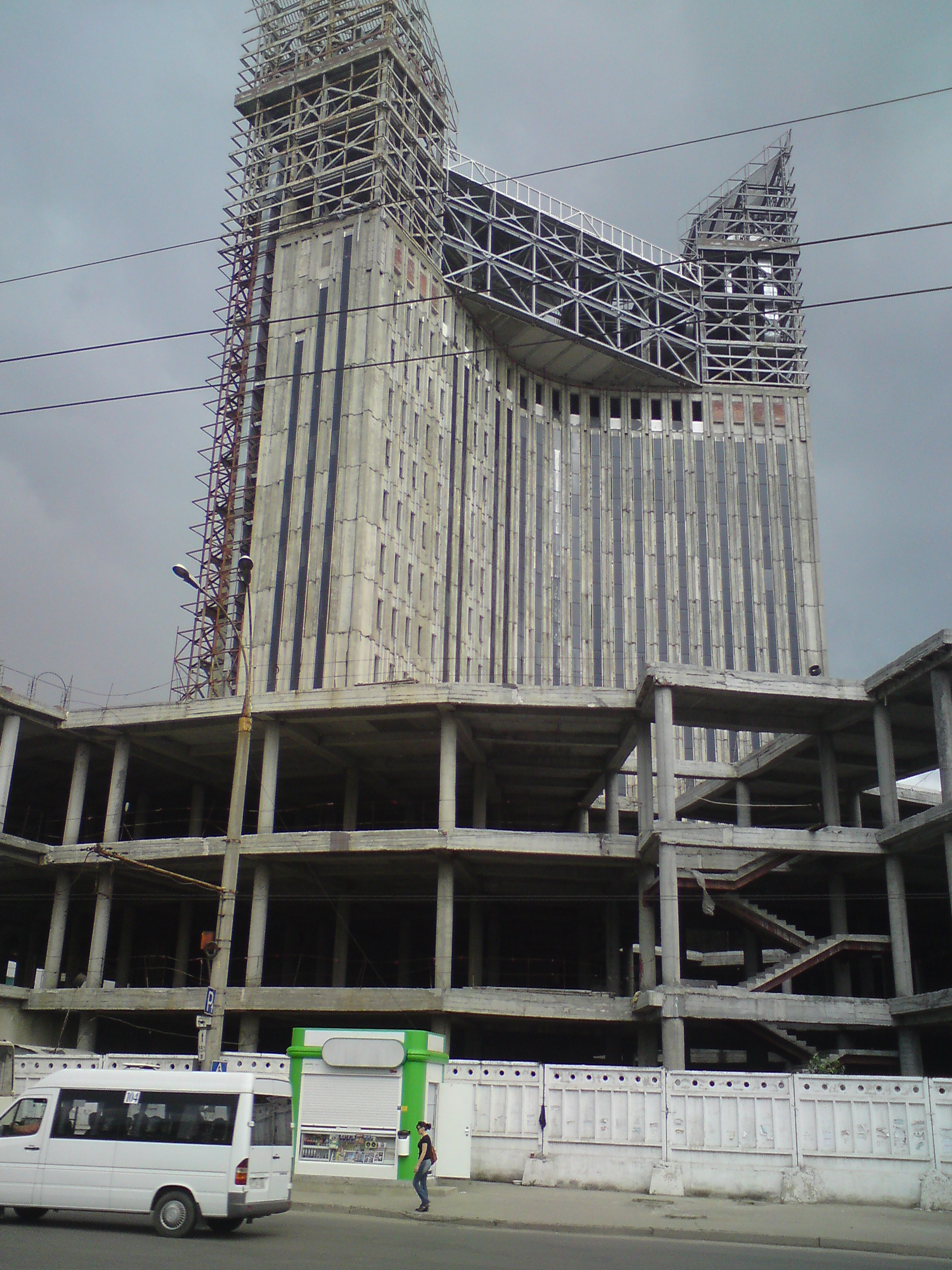 Building under construction near Cantemir avenue of Chișinău